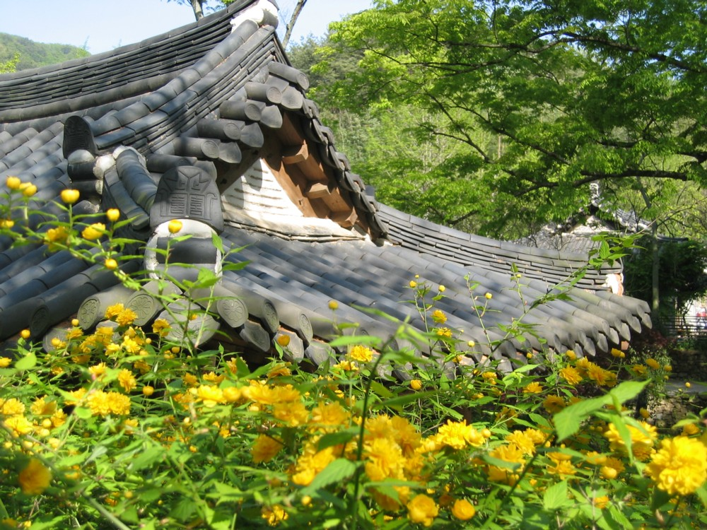 A spring view of Soswaewon, Damyang, South Korea